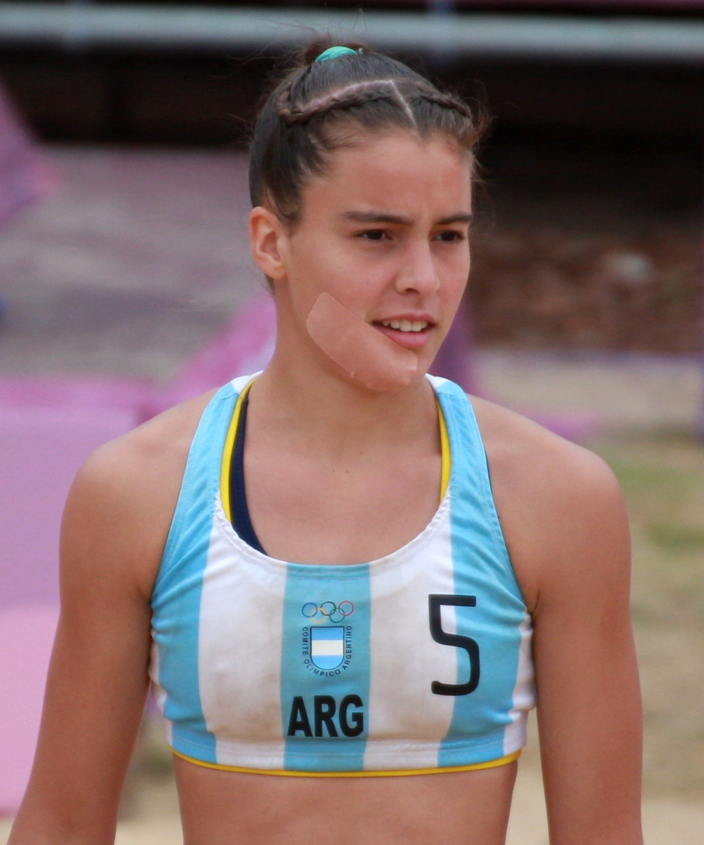 Beach handball at the 2018 Summer Youth Olympics at 11 October 2018 – Girls Main Round – Hungary-Argentina 1:2